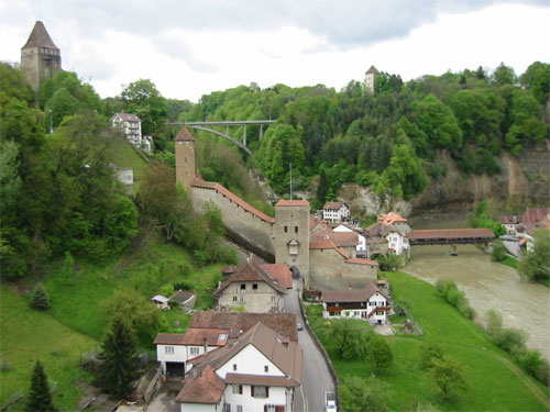 La Sarine/Saane in Friburg